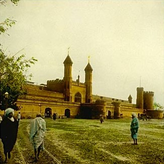 Lahore - general view of railway station (Jackson's own caption) Magic lantern image from today's Pakistan